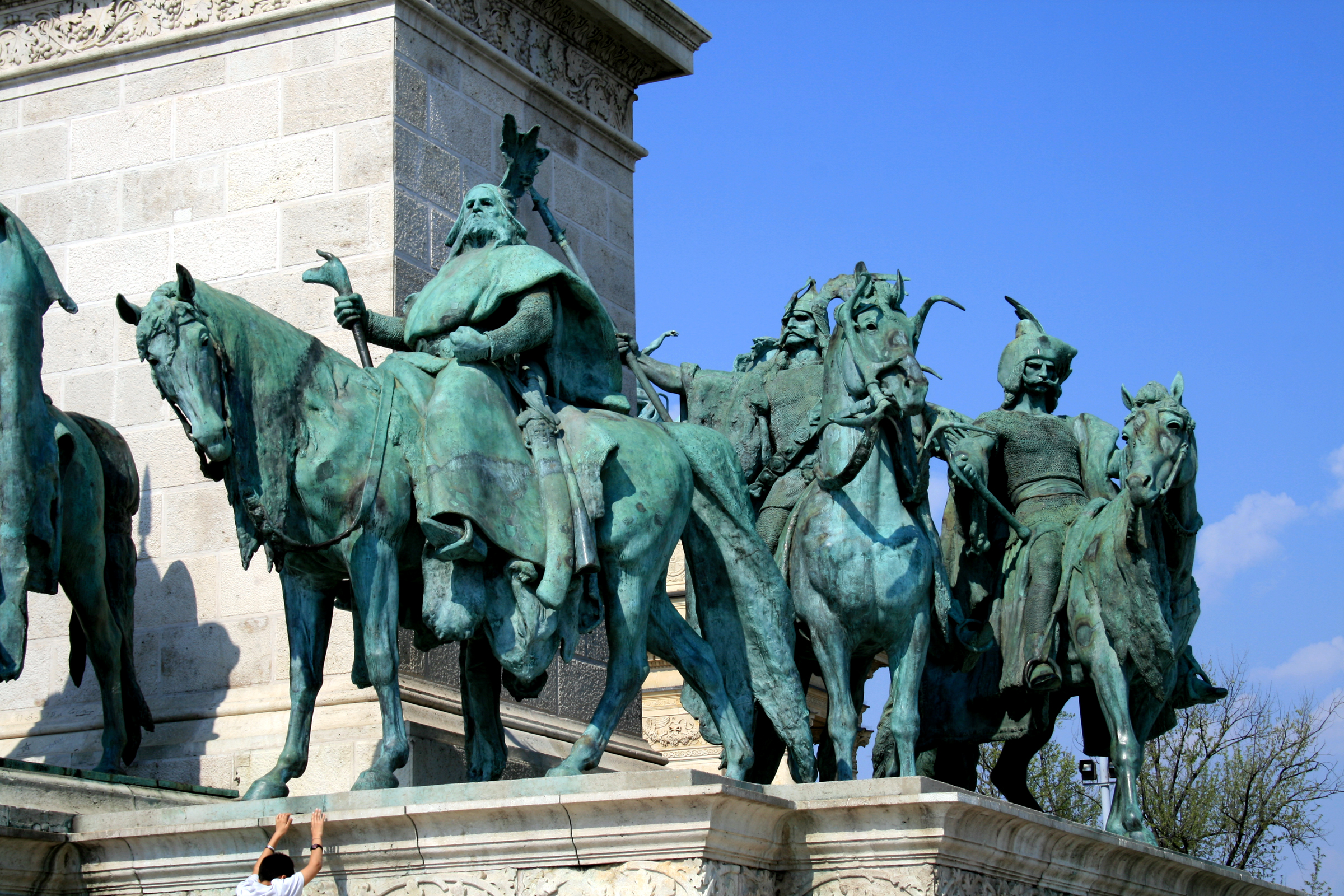 Statues under main column of Millenium Monument on Heroes' square, Budapest, Budapest, Hungary